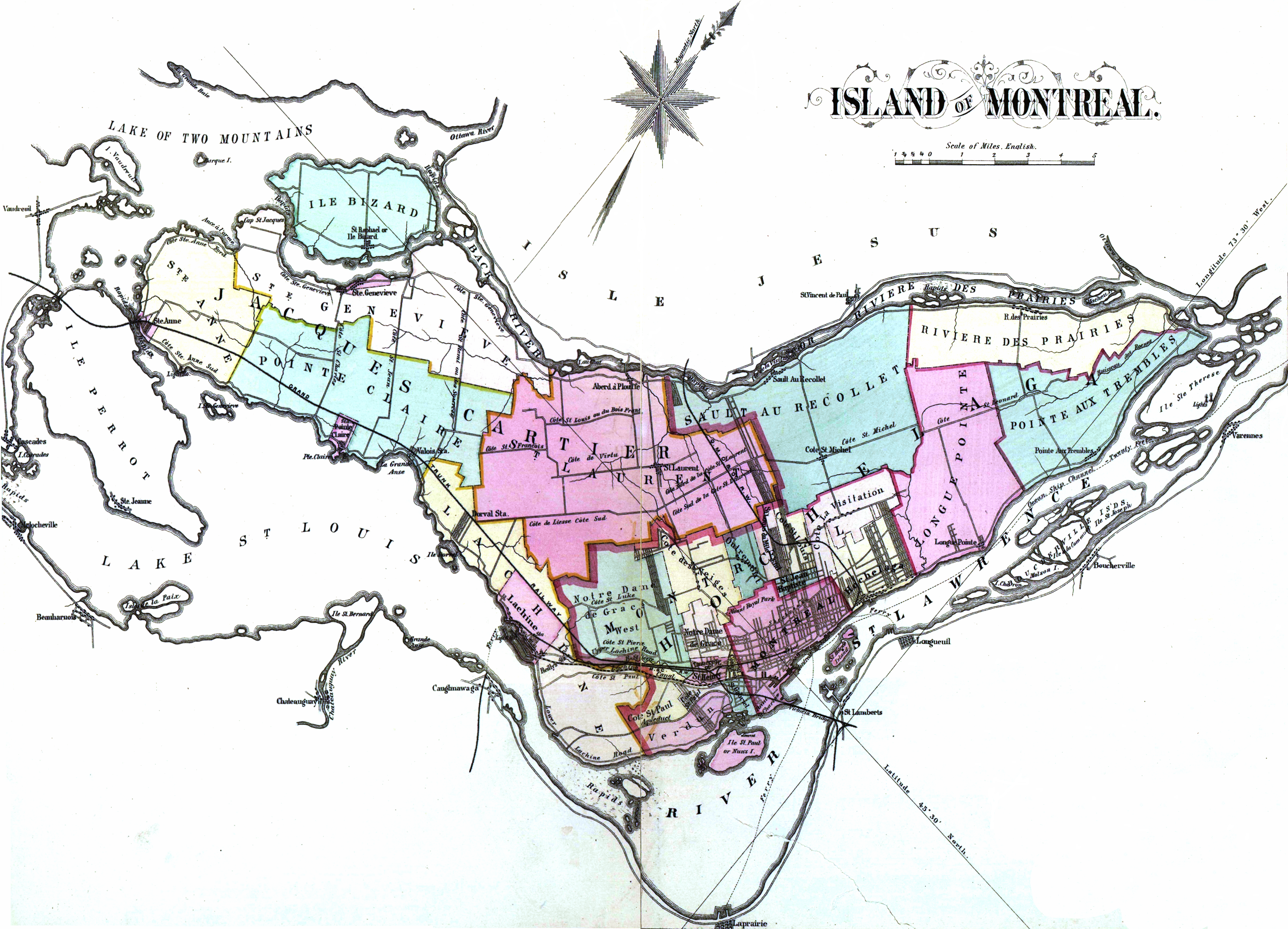 Atlas of the city and island of Montreal, including the counties of Jacques Cartier and Hochelaga ; from actual surveys, based upon the cadastral plans deposited in the office of the Department of Crown Lands